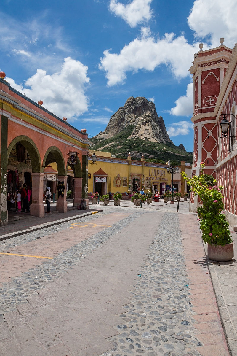 A view of the center of San Sebastian Bernal with the Peña de Bernal visible in the background.